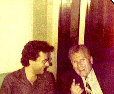 جمال حسين علي مع يوسف إدريس